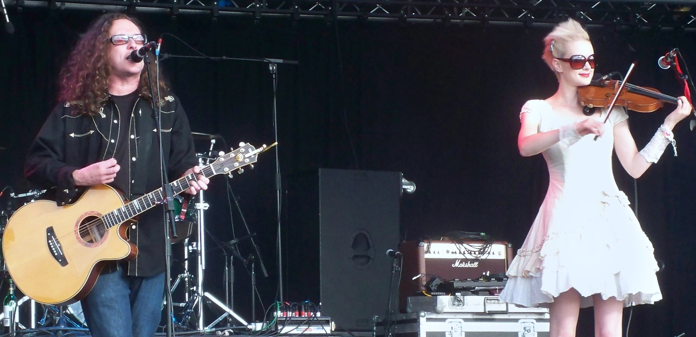 The Wonderstuff entertaining the crowd at Guilfest 2012